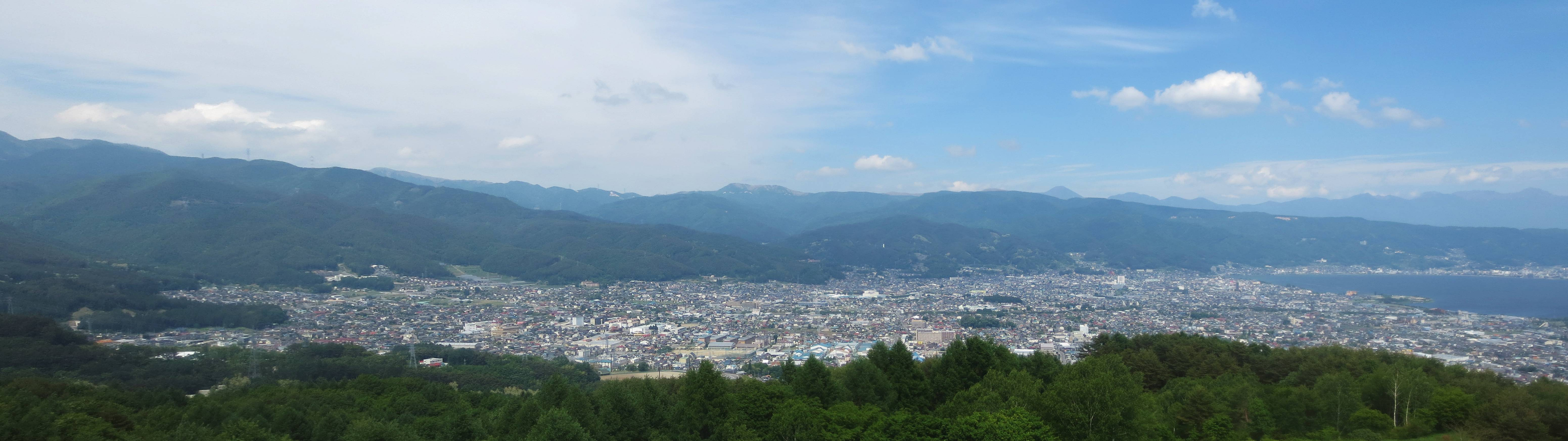 View from Toriidaira Yamabiko Park observation tower.